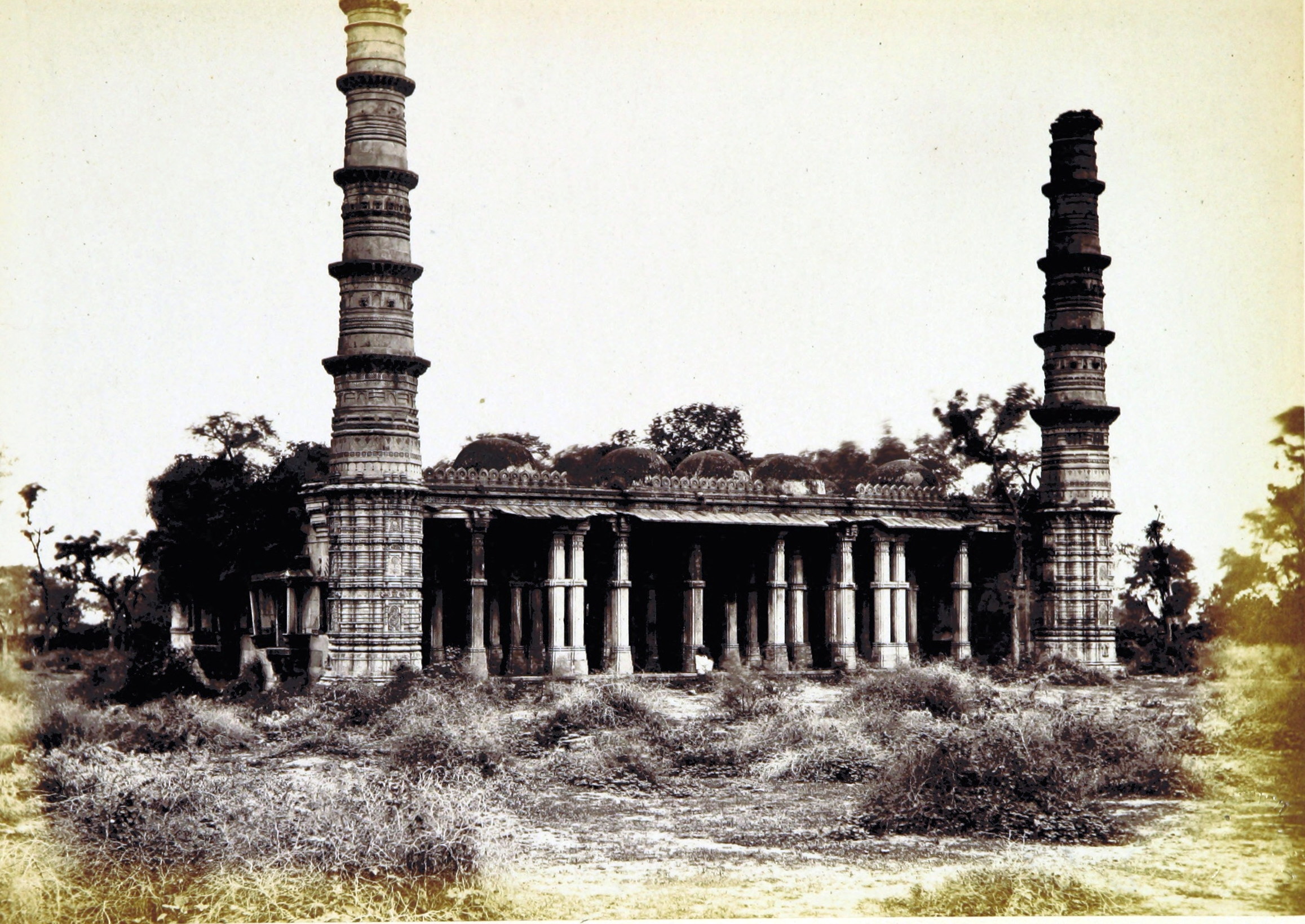 Image taken from: Title: "Architecture at Ahmedabad, the Capital of Goozerat, photographed by Colonel Biggs, ... With an historical and descriptive sketch, by T. C. H., ... and architectural notes by J. Fergusson, etc" Author: HOPE, Theodore Cracraft - Sir, K.C.S.I Contributor: BIGGS, Thomas. Contributor: FERGUSSON, James - Architect Shelfmark: "British Library HMNTS 10057.f.17.", "British Library OC V 6665" Page: 253 Place of Publishing: London Date of Publishing: 1866 Issuance: monographic Identifier: 001730119 Note: The colours, contrast and appearance of these illustrations are unlikely to be true to life. They are derived from scanned images that have been enhanced for machine interpretation and have been altered from their originals. If you wish to purchase a high quality copy of the page that this image is drawn from, please order it here. Please note that you will need to enter details from the above list - such as the shelfmark, the page, the book's volume and so on - when filling out your order. Following this or the link above will take you to the British Library's integrated catalogue. You will be able to download a PDF of the book this image is taken from, as well as view the pages up close with the 'itemViewer'. Click on the 'related items' to search for the electronic version of this work. Click here to see all the illustrations in this book and click here to browse other illustrations published in books in the same year. Please click on the tags shown on the right-hand side for other ways to browse the illustrations.